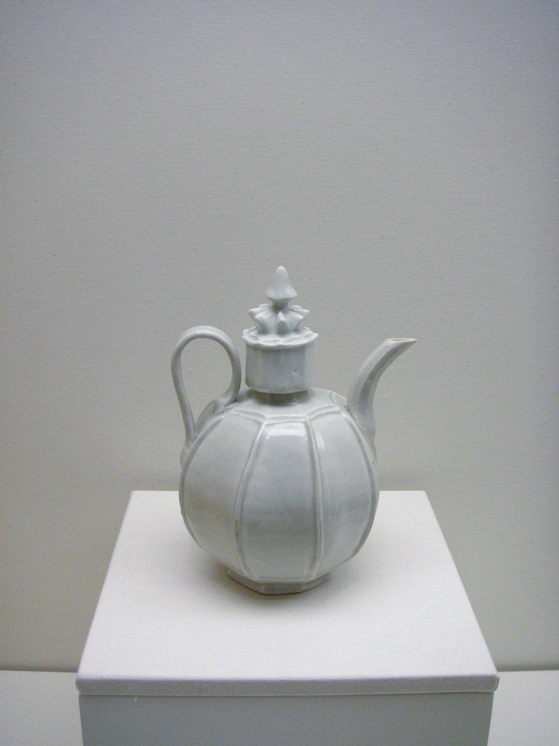 Ewer with cover, qingbai-glazed porcelain. Jingdezhen kills, Jiangxi province, Northern Song dynasty or Southern Song dynasty. 11th or 12th century C.E. Collection Yuegutang, Berlin. At Museum für Ostasiatische Kunst, Berlin-Dahlem.